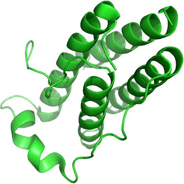 Leptin (PDB:1AXB)